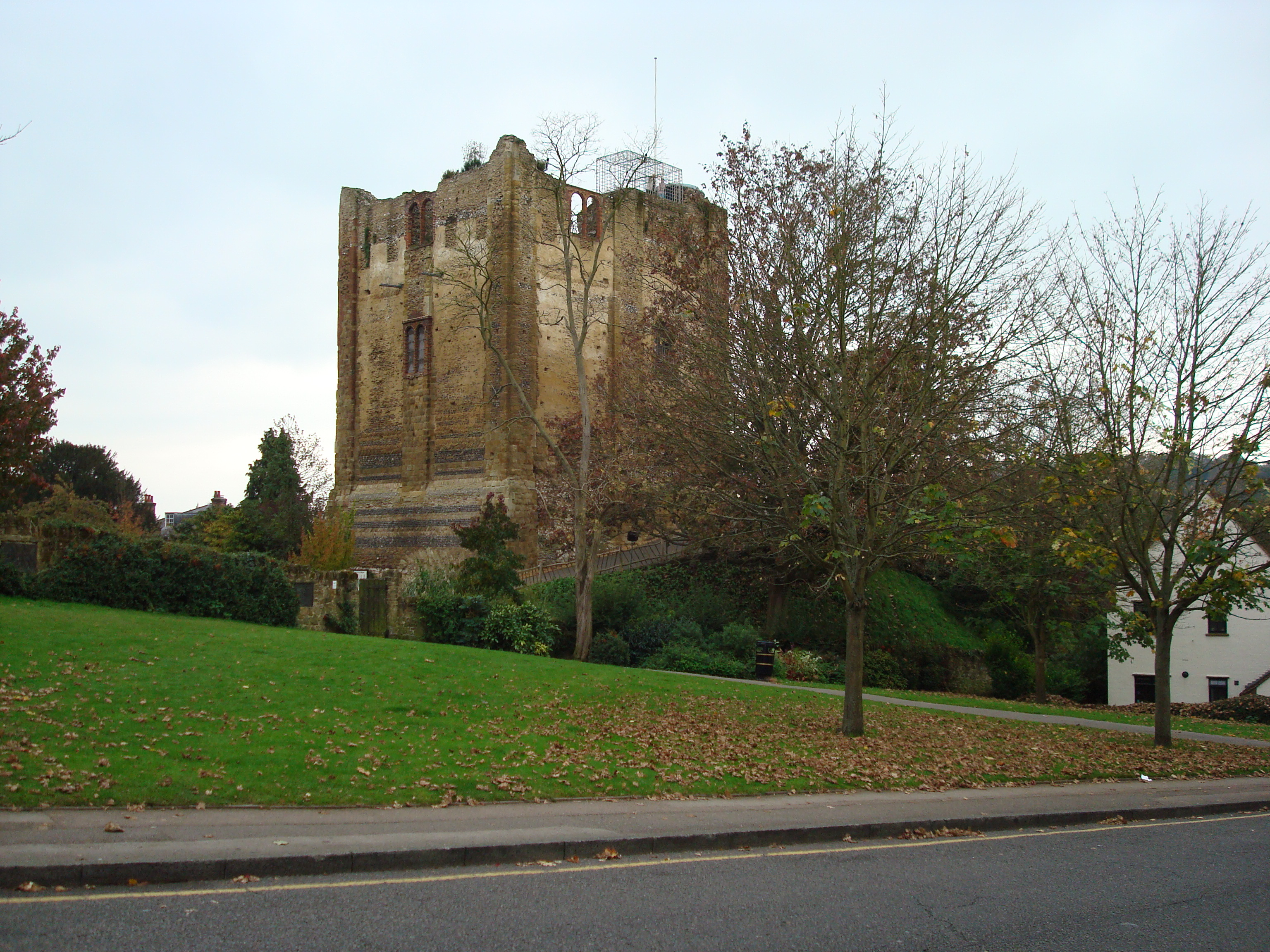 S Knights, my pic, Oct 2007